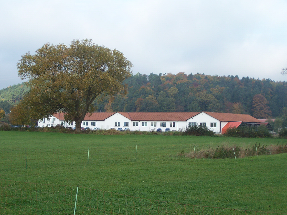 The industrial development area in Unterellen.